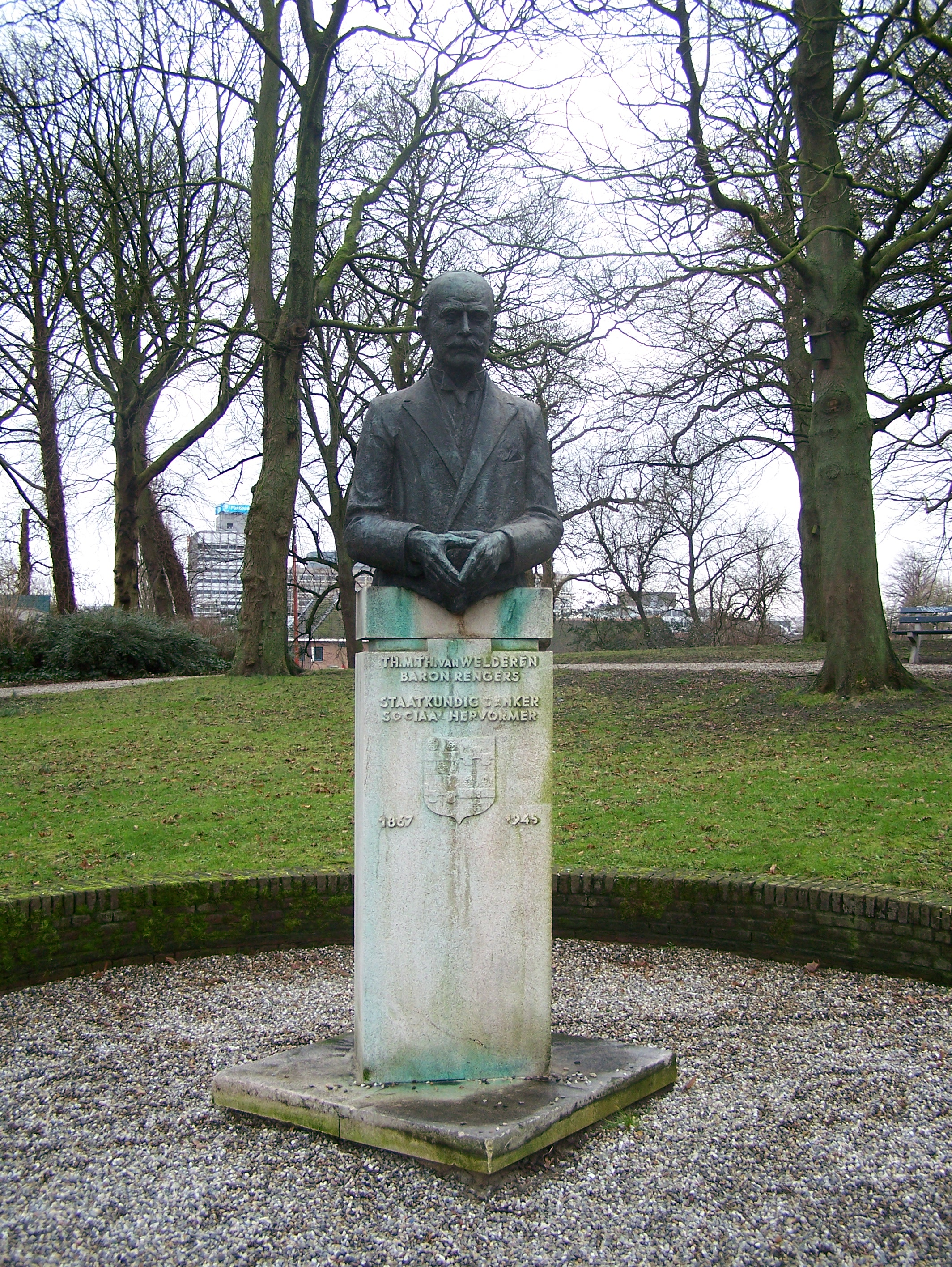 a bust of Baron Rengers, THM van Welderen. Made by Hildo Krop in 1955 and placed at the Westerplantage in Leeuwarden. Rengers was Mayor of Leeuwarden from 1877 tot 1883, he had to resign when he became partially blind.